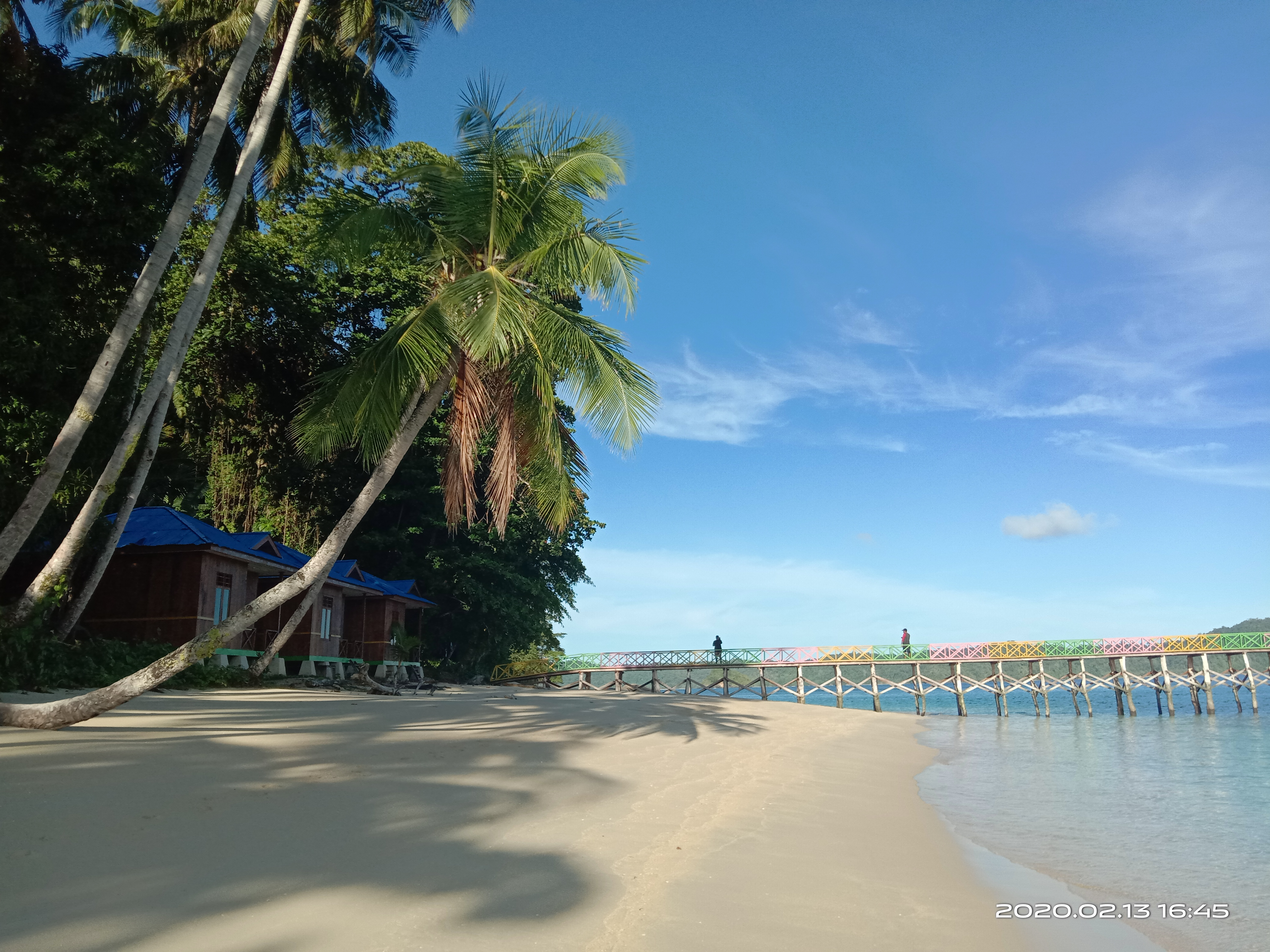 Rariau Island, Roon District, Teluk Wondama Regency